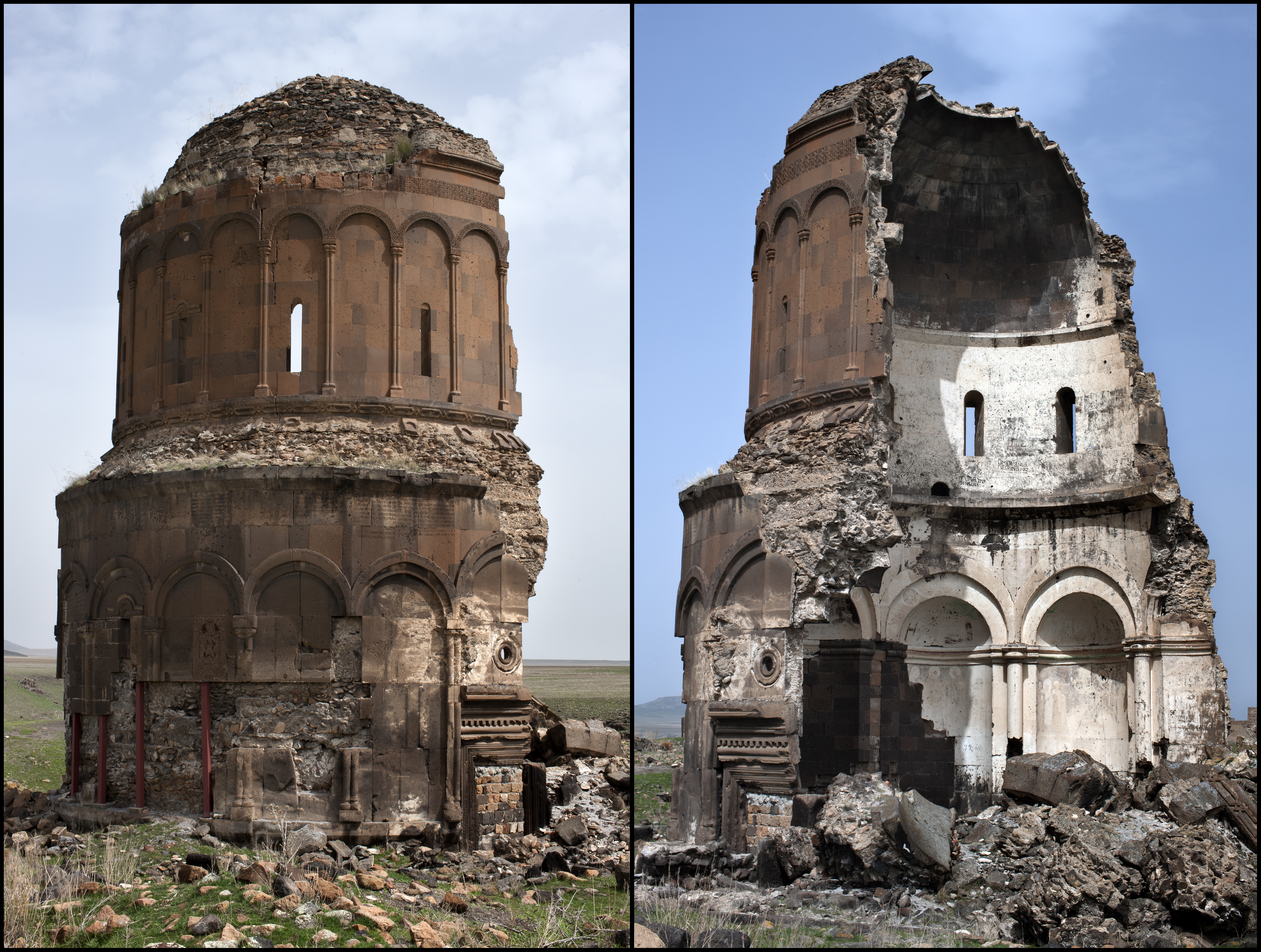 Church of Redeemer, Ani, Western Armenia.